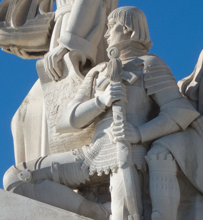 Effigy of King Afonso V of Portugal (1432-1481), in the Padrão dos Descobrimentos (Monument to the Discoveries), in Lisbon, Portugal.